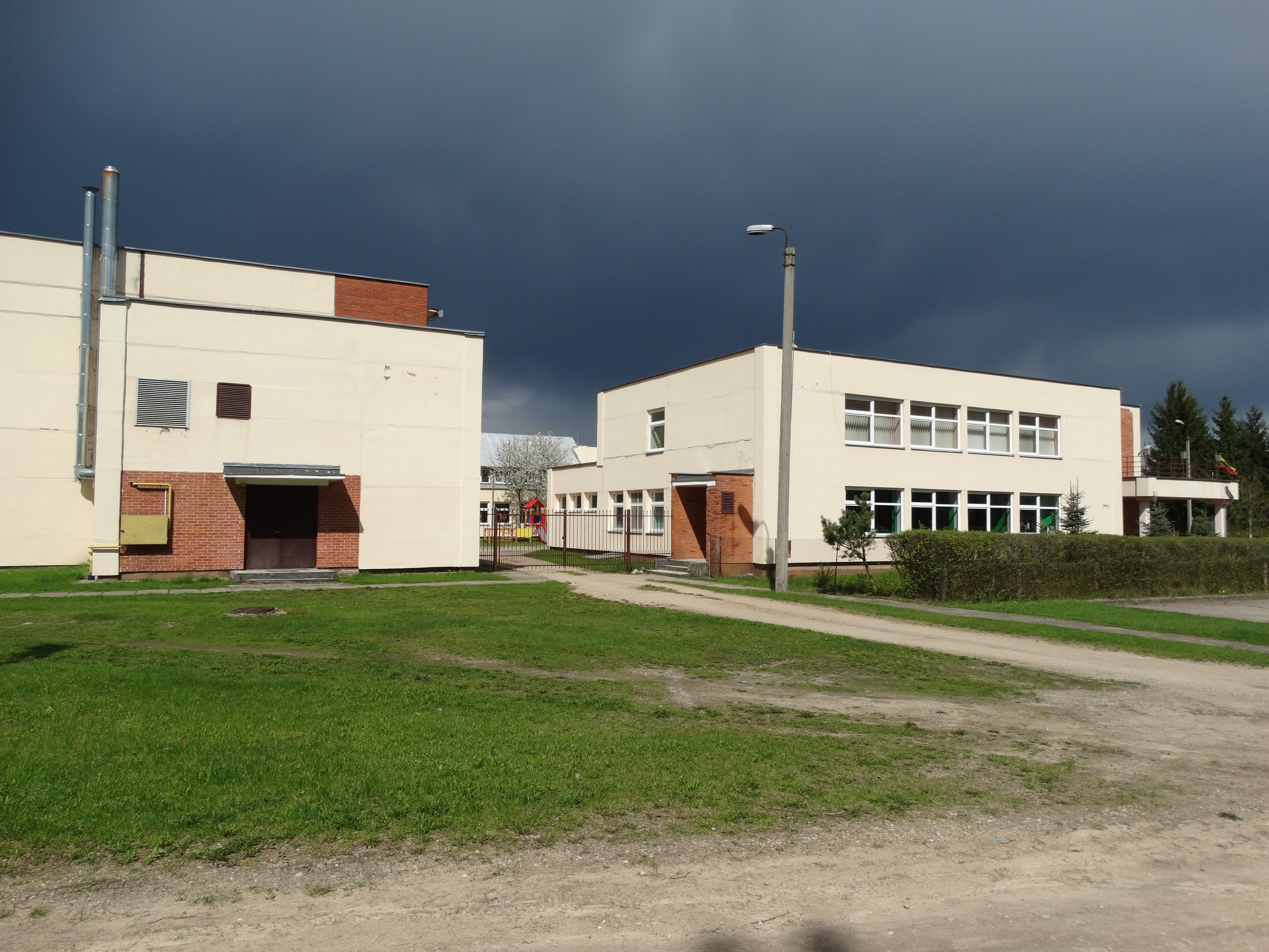 Basic school, Šalčininkėliai, Šalčininkai District, Lithuania